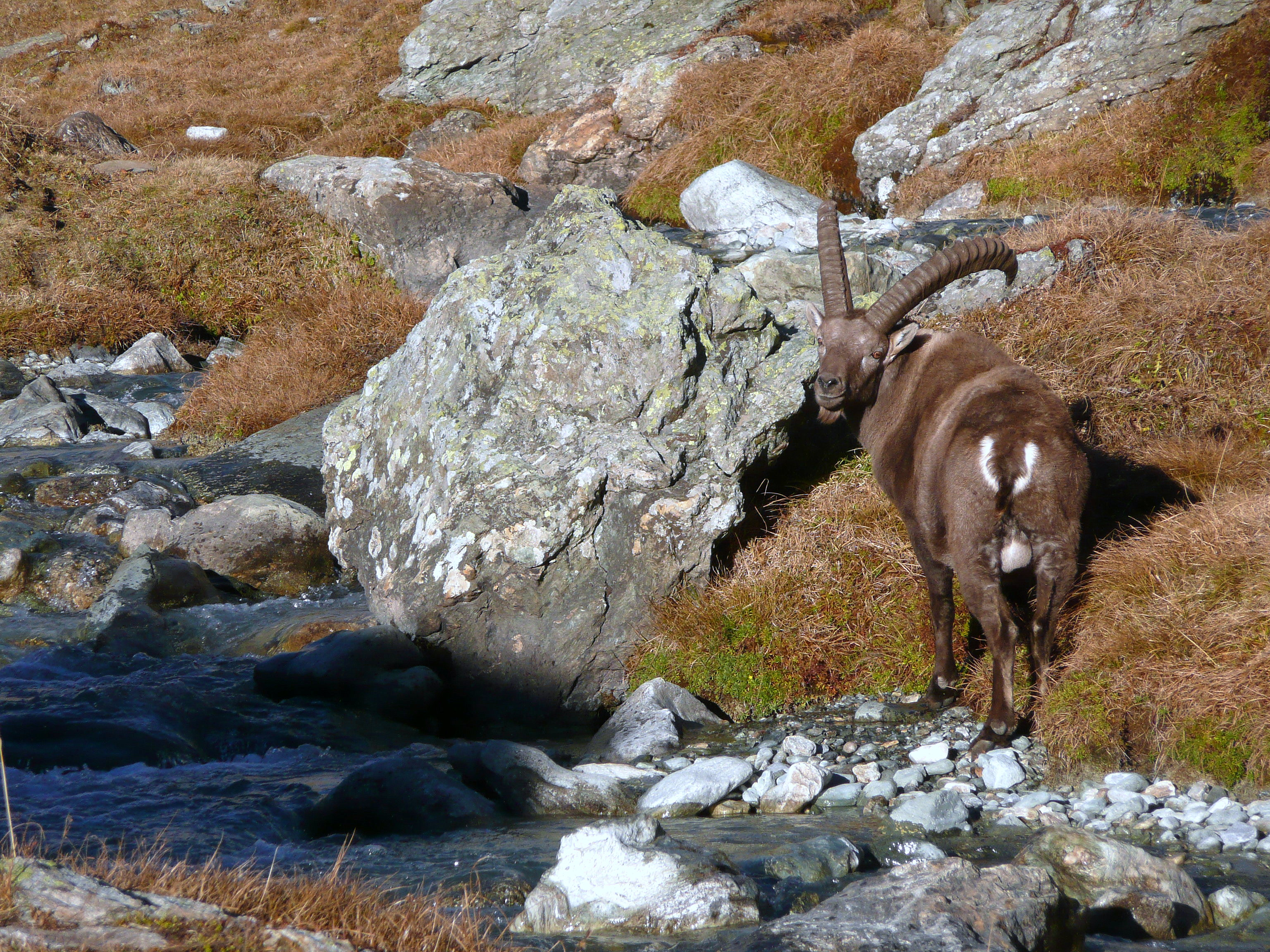 Alpine Ibex (Capra ibex) near the refuge of Plaisance, Champagny en Vanoise, France at the end of autumn